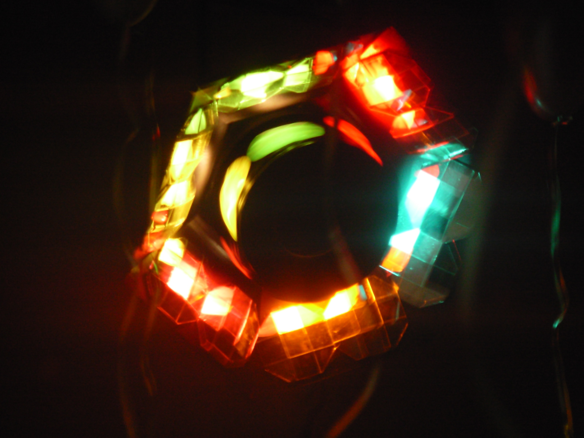 lights of many colors, disco lights, djs, party, eletronic music